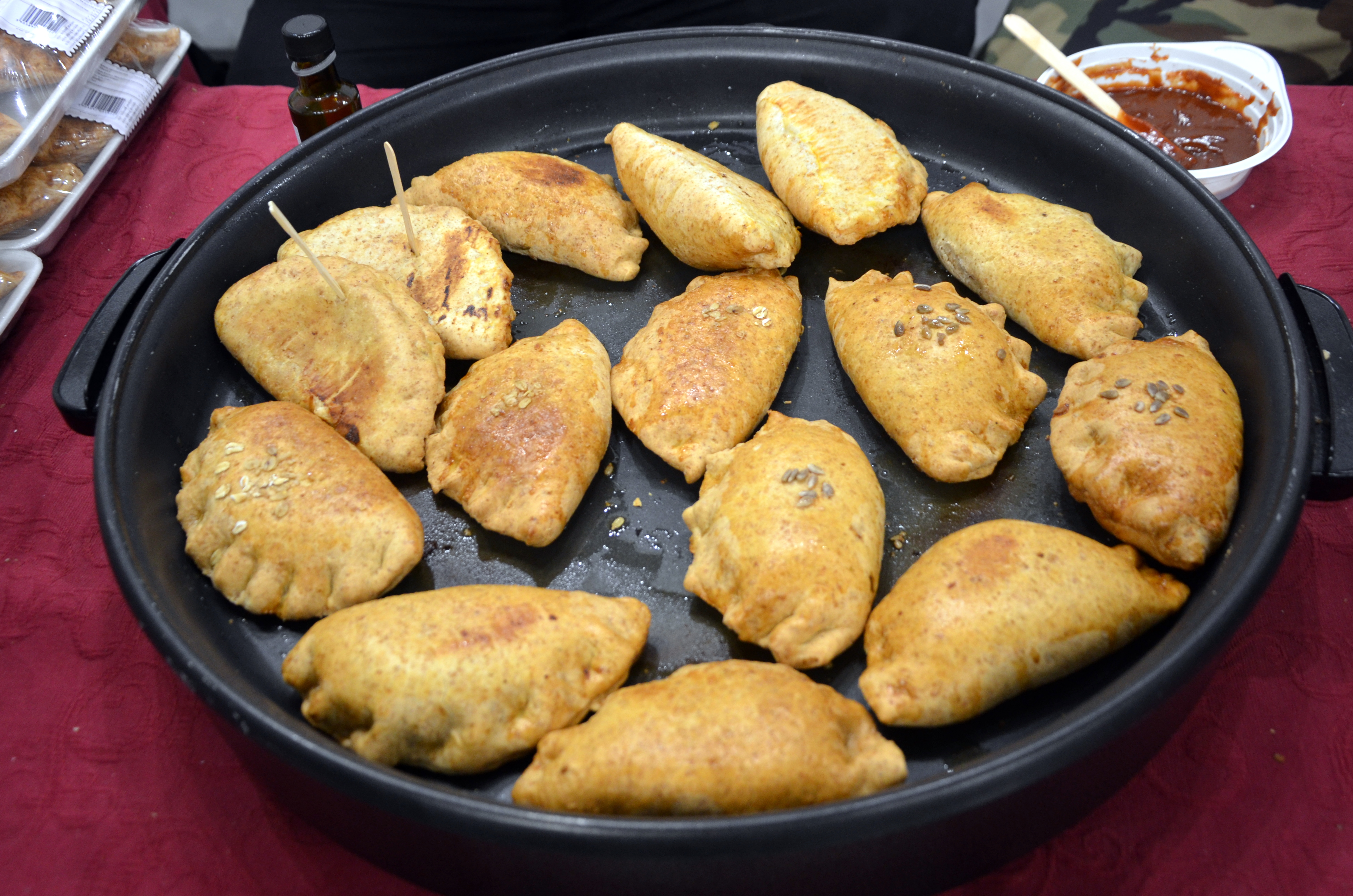 Litauische Kibinai in Schlesien